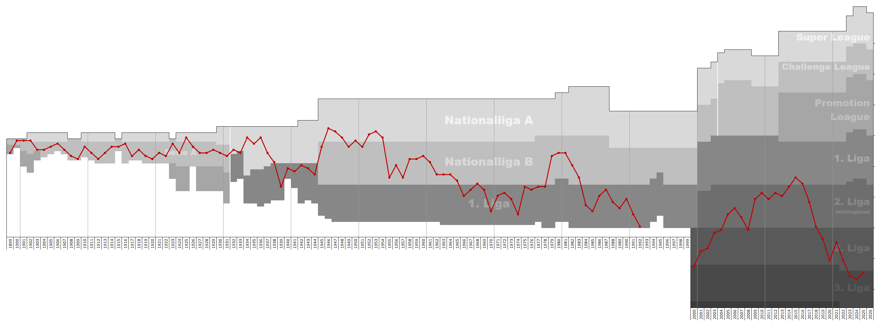 Chart of end-season table positions for FC Bern in the Swiss football league system. Data source: RSSSF, , al-la.ch